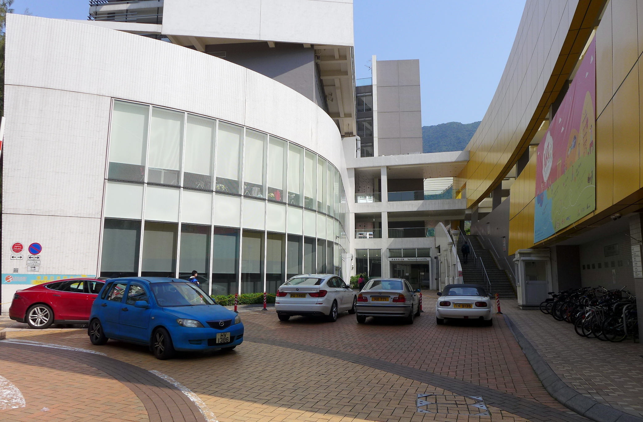 Tung Chung Municipal Services Building